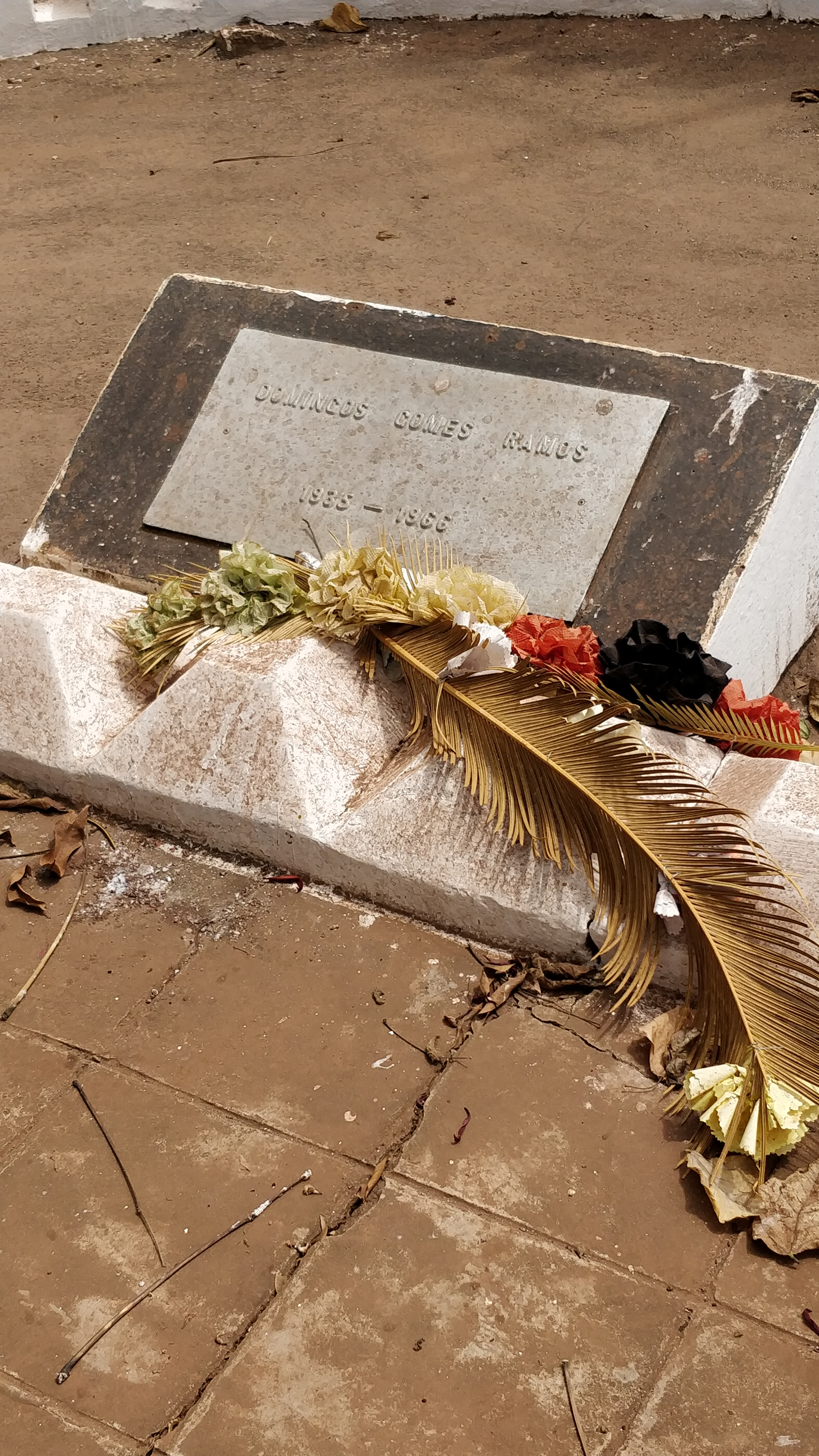 Monument for the Heroes of the Fatherland (Memorial aos Heróis da Pátria) in Bissau